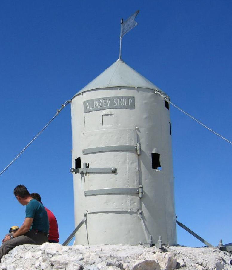 Aljažev stolp (Aljaž's Tower) on the summit of Mt. Triglav (2864 m), the highest mountain of Slovenia. Made by Anton Belec (1857-1940) according to the plan by Jakob Aljaž (1845-1927). Photographed by Matija Podhraški on 30 August 2005.